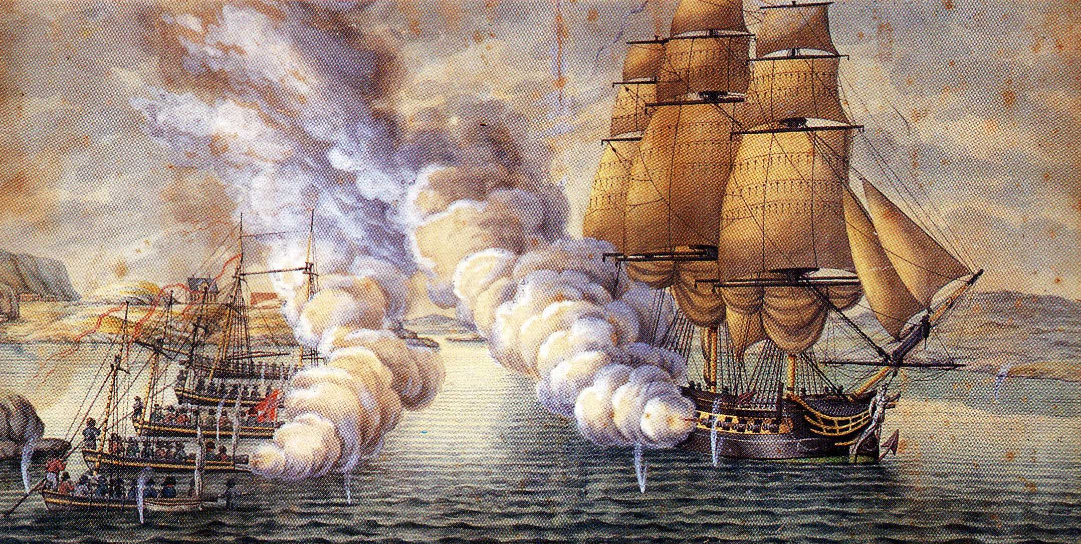 Gunboat battle near Alvøen in Norway, 11 may 1808.